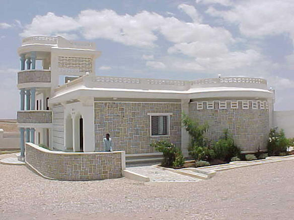 A house in Hargeisa.